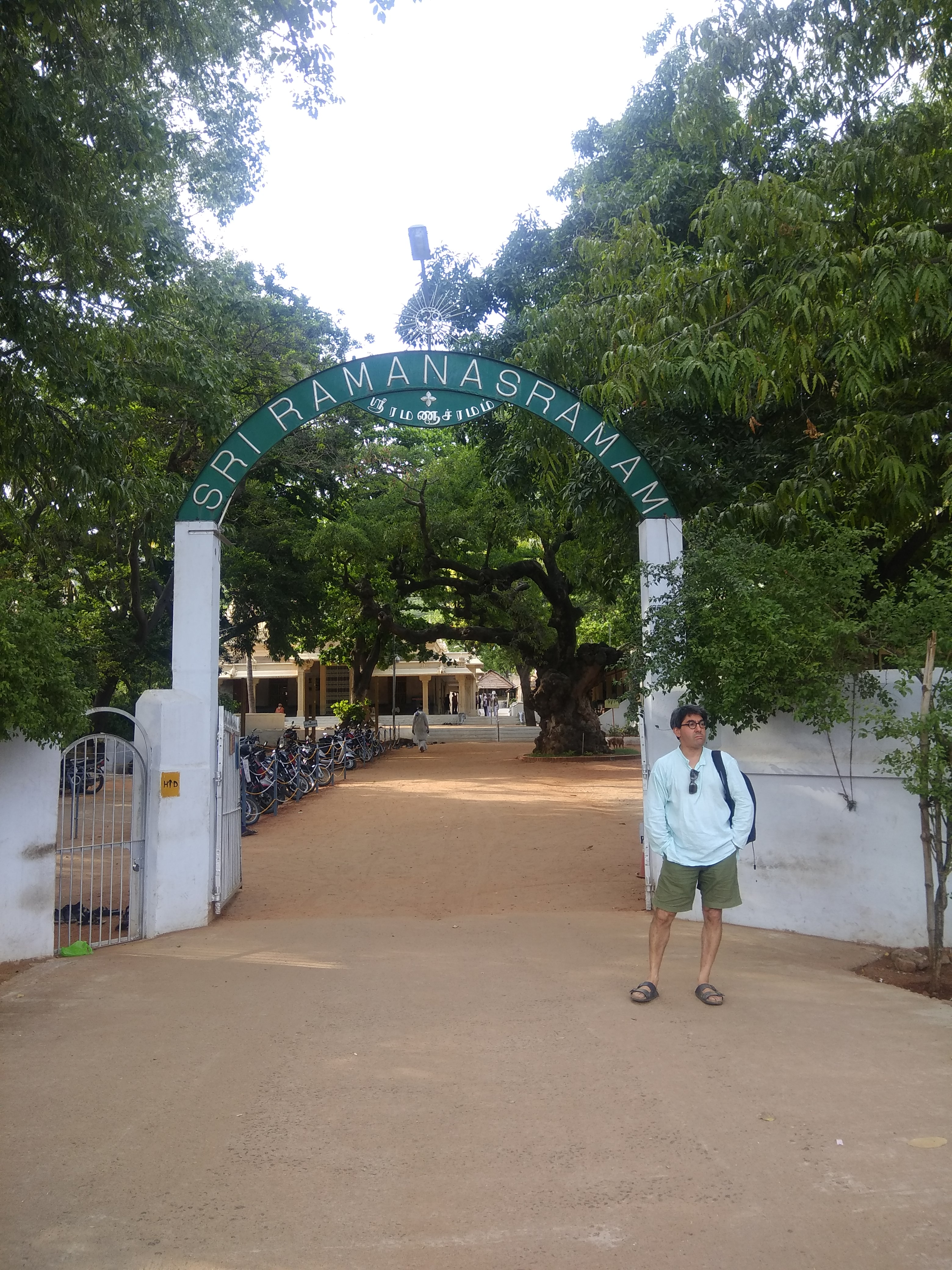 Ramanashramam Entrance, Tiruvannamalai, TN